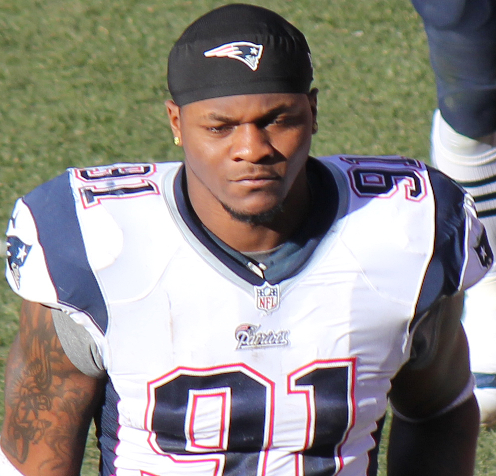 Jamie Collins, a player on the National Football League.